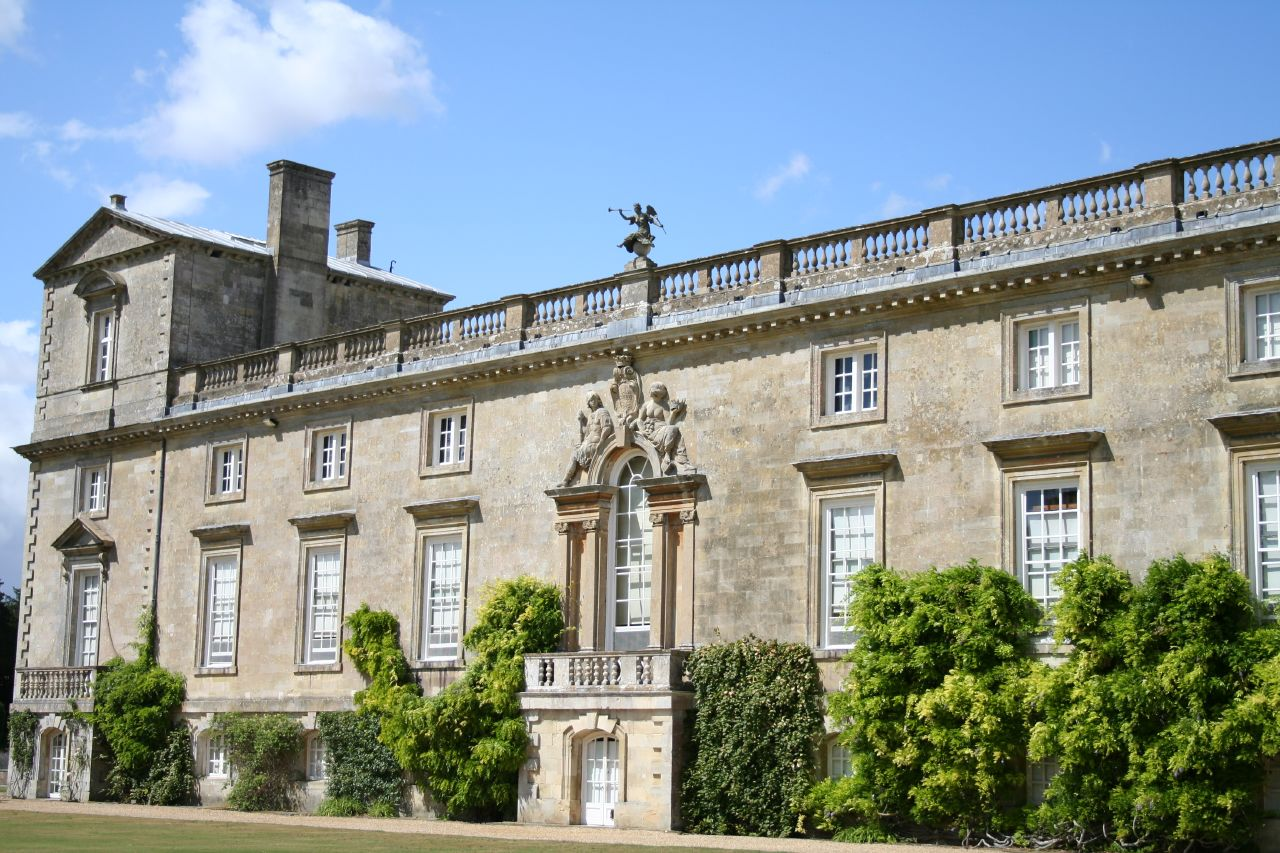 A good photo of the side view of the house.